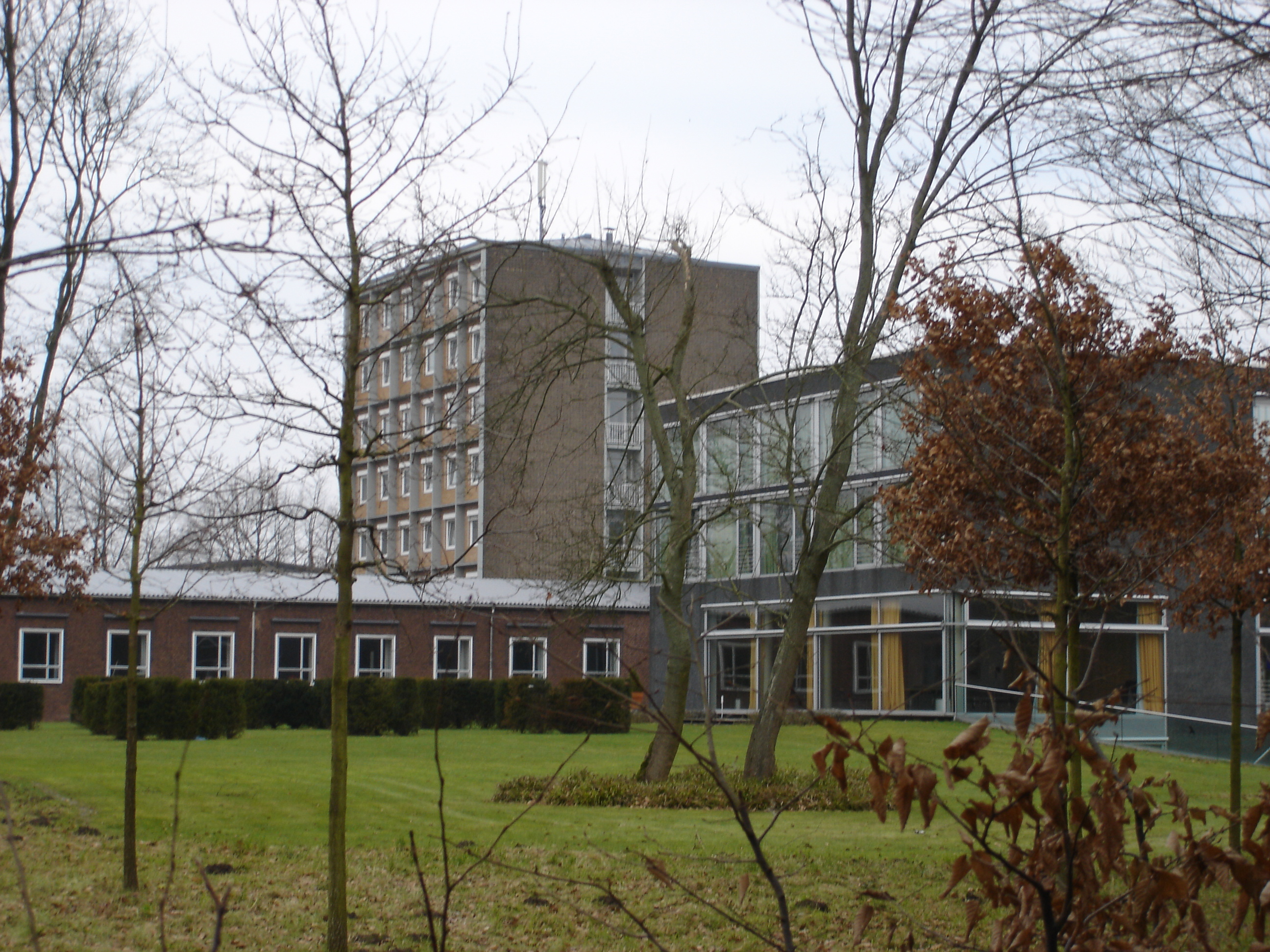 View on the backside of the "Franz Hitze Haus" in Münster, Westphalia, Germany